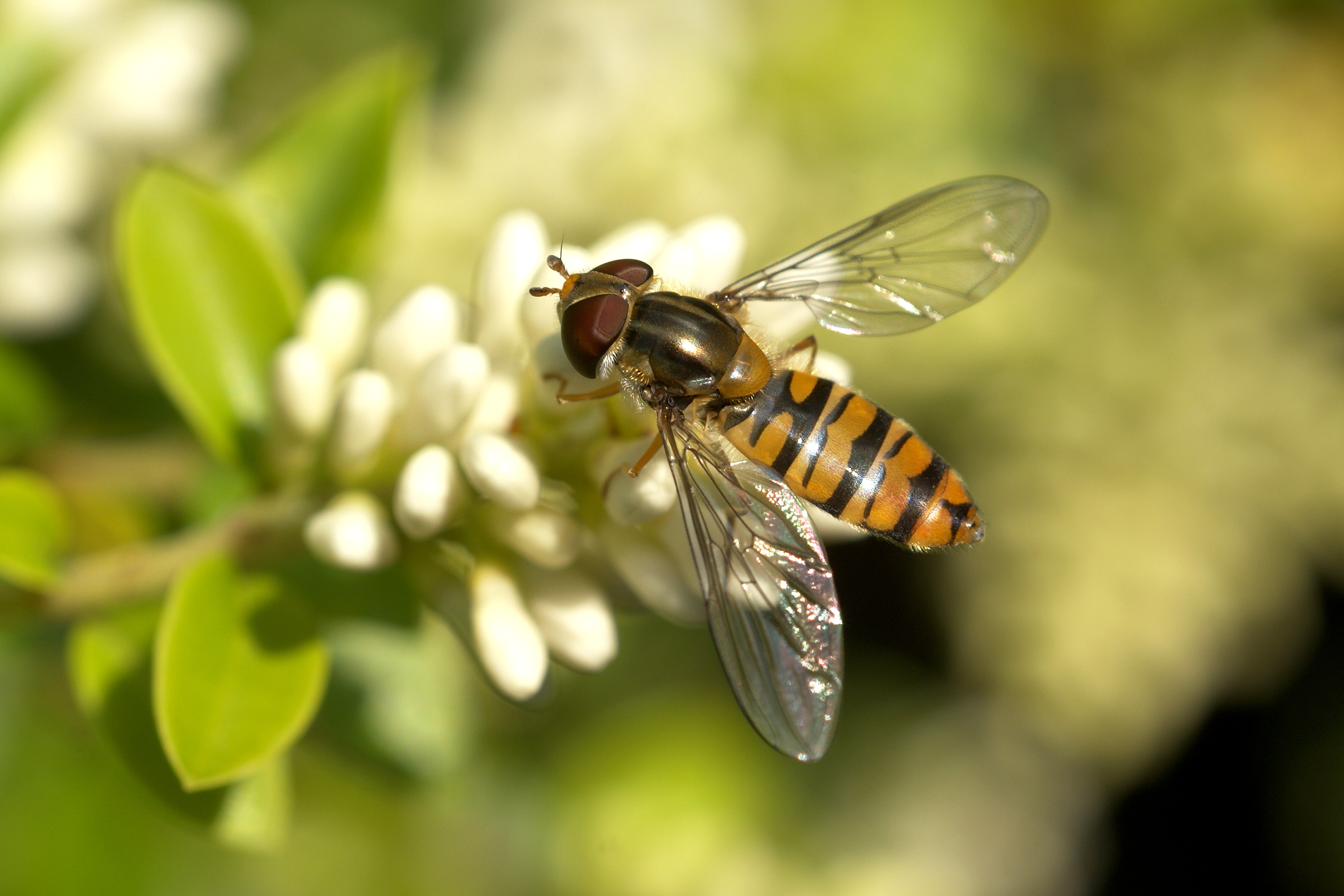 A ♀ hoverfly at De Haan, Belgium.